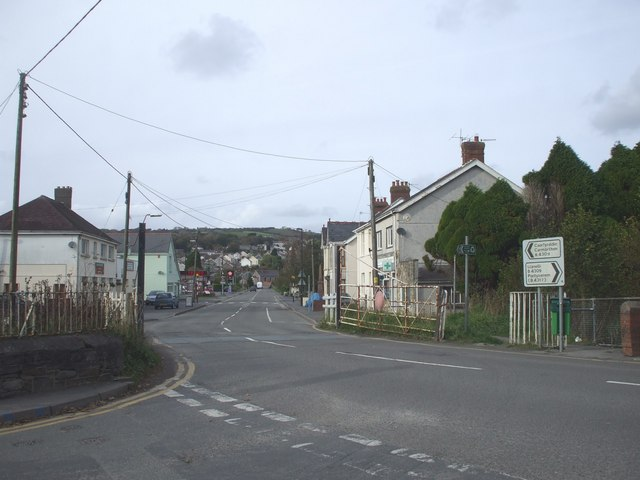 Level crossing at dismantled railway, Pont-iets